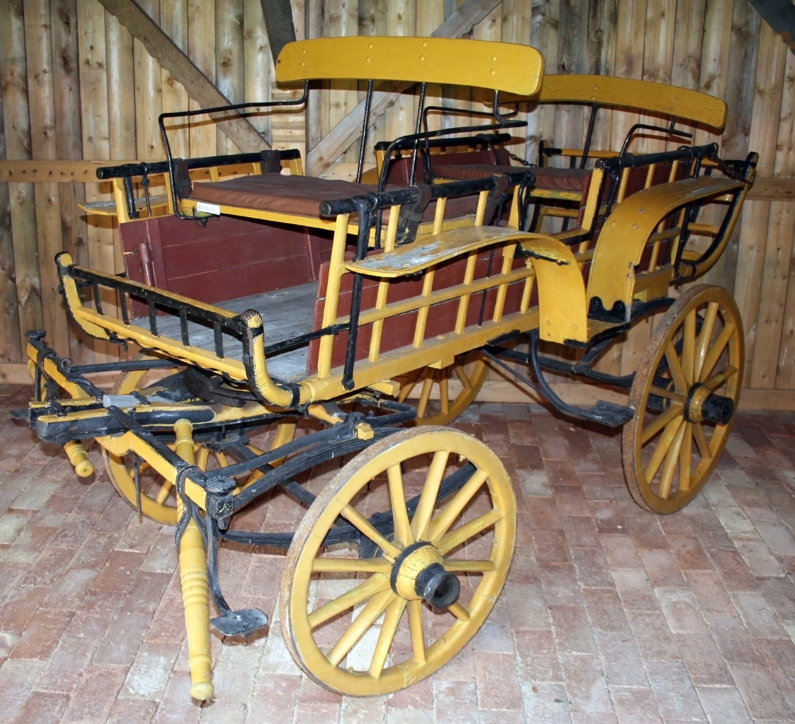 Kőrösi type coach